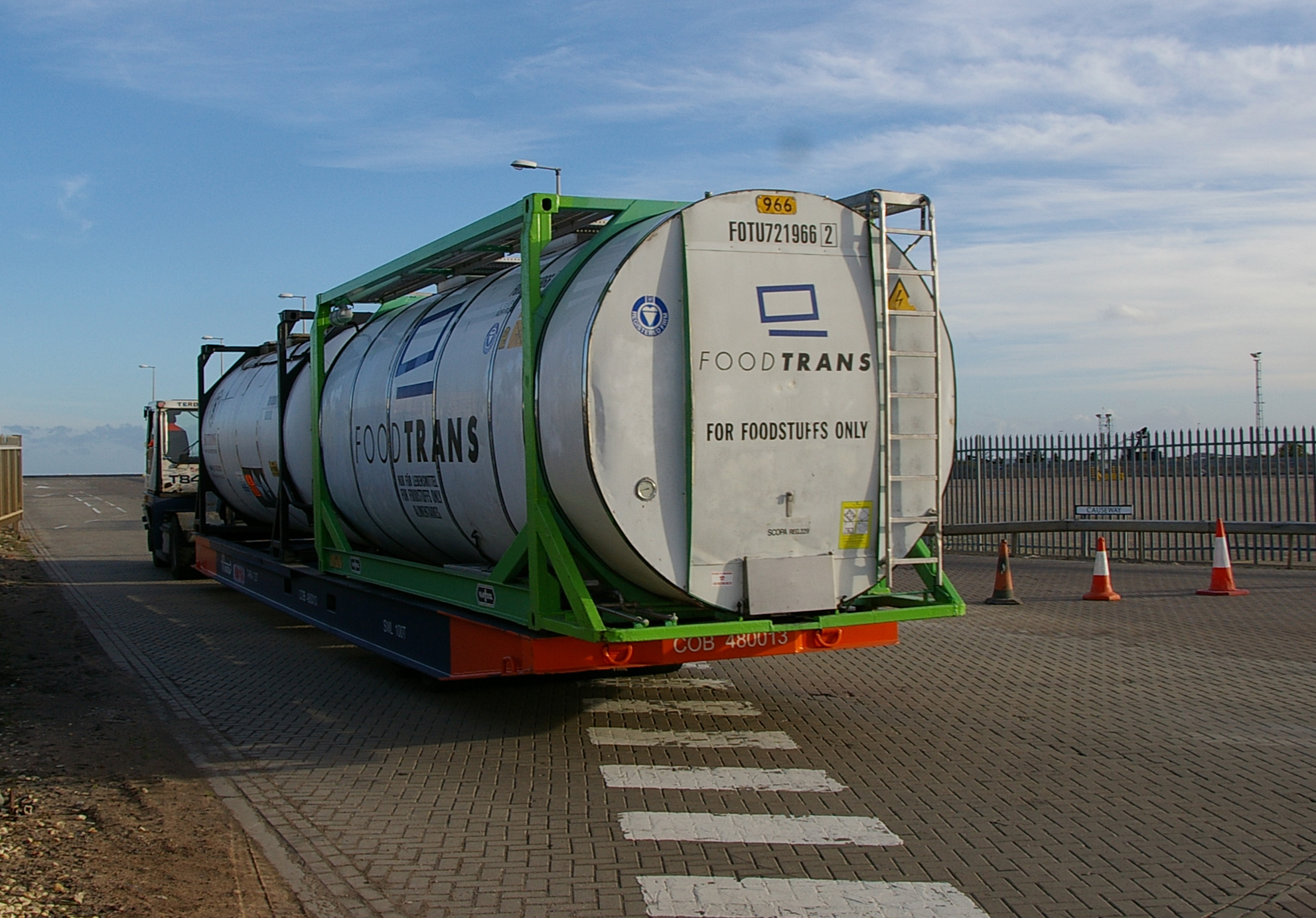 Moving Bulk Liquid Tanks at the Humber Sea Terminal